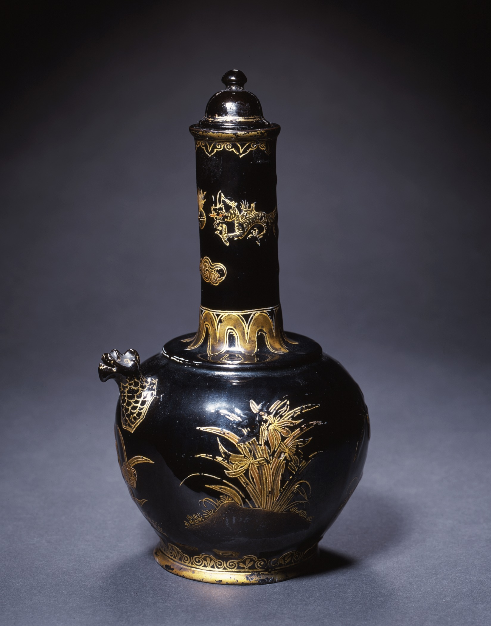 Germany, Saxony, Meissen, circa 1712-1715 Furnishings; Serviceware Red stoneware, glaze, gilding Purchased with funds provided by the William Randolph Hearst Collection by exchange (87.5.1a-b) Decorative Arts and Design Currently on public view: Hammer Building, floor 3